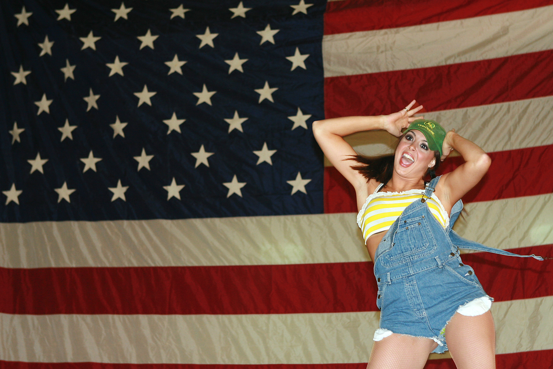 AL ASAD AIR BASE, Iraq, -- Tanea Brooks, a member of the ‘Purrfect Angelz’, shows off her dance moves during a performance here Nov. 18. The ‘Purrfect Angelz’ is a performance entertainment group from Los Angeles, comprised of women from various backgrounds such as professional cheerleading, competitive dance, modeling, singing, and aerial acrobatics. Official Marine Corps Photo By Cpl. Ryan C. Heiser.